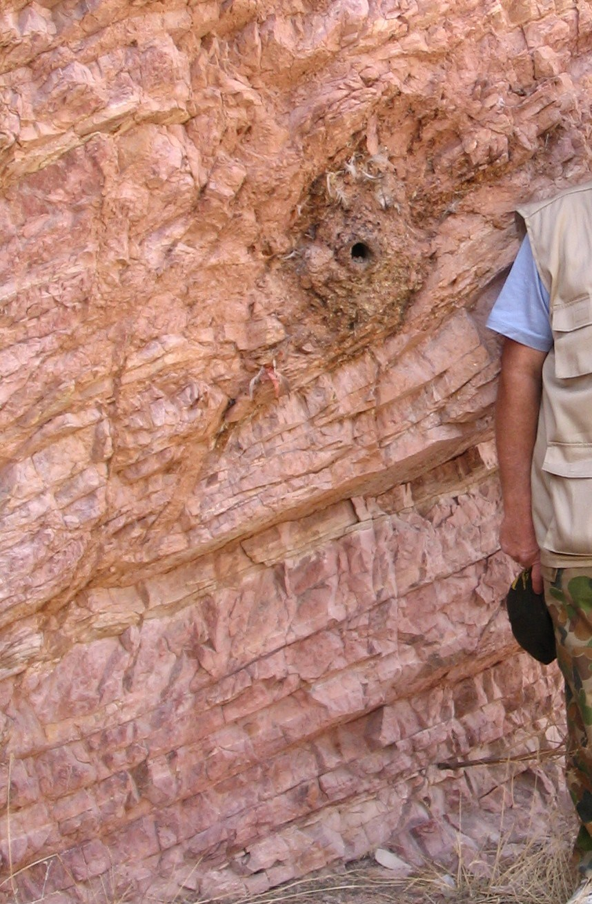 Me next to Eastern Rock Nuthatch nest (Sitta tephronota) in Vedi Hills - route from Vedi town to Kakhtsrashen village through outskirts of Mt Ilkasar, Armenia. Photographed on 25 October 2007